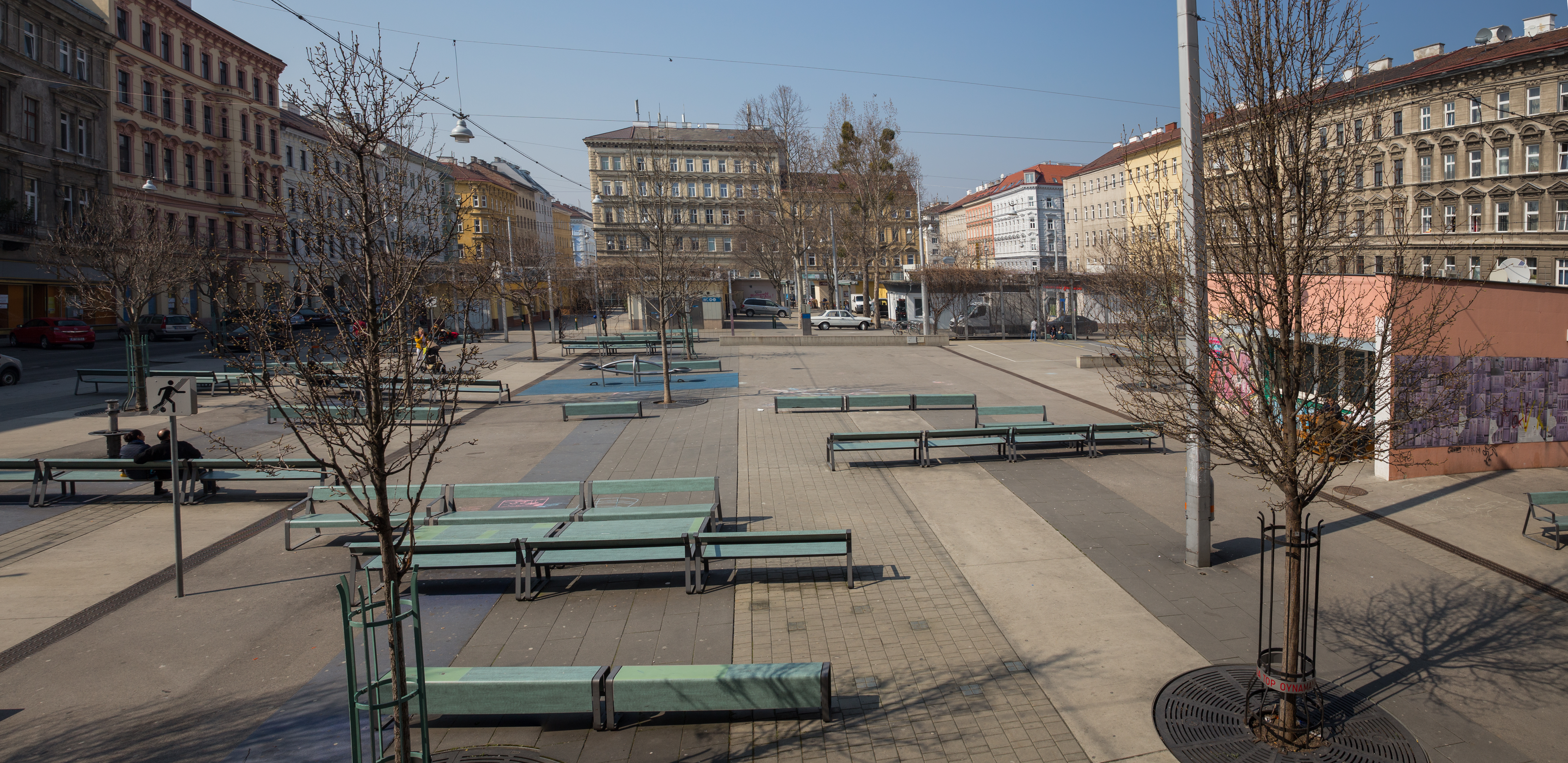 Volkertmarkt, Vienna, Leopoldstadt